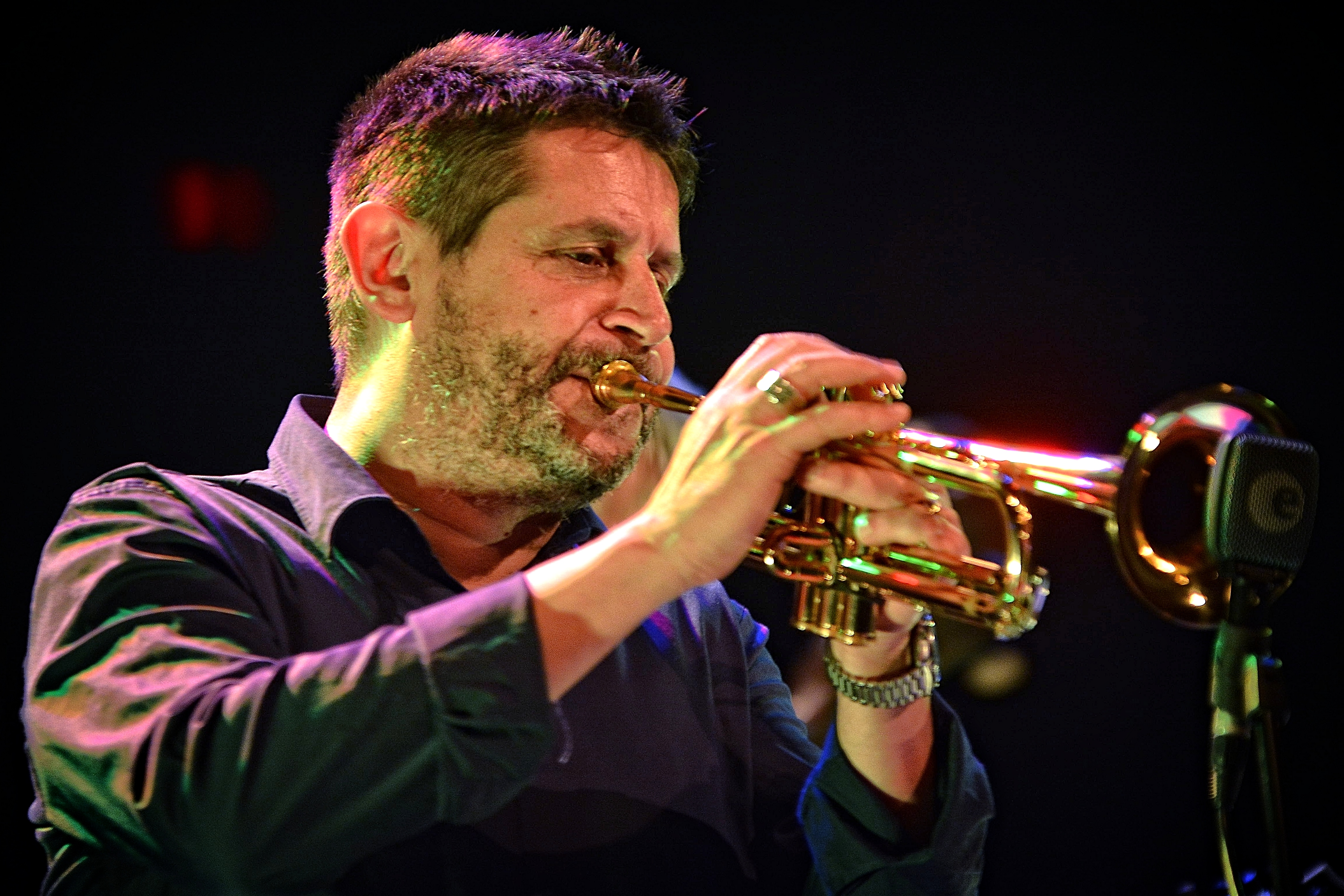 Marco TAMBURINI & Chicco CAPIOZZO 4et / JAZZenatico 2015 / Friday 2015-03-13, City Theatre, Cesenatico (FC), Italy